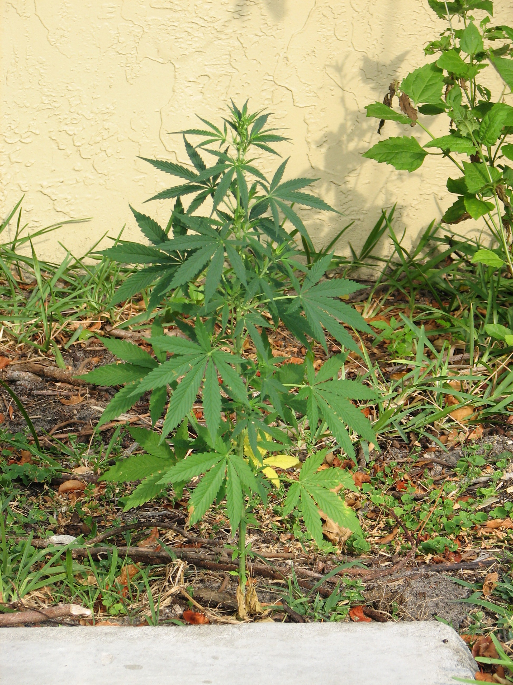 Male cannabis plant growing wild, about .25 km from my home.